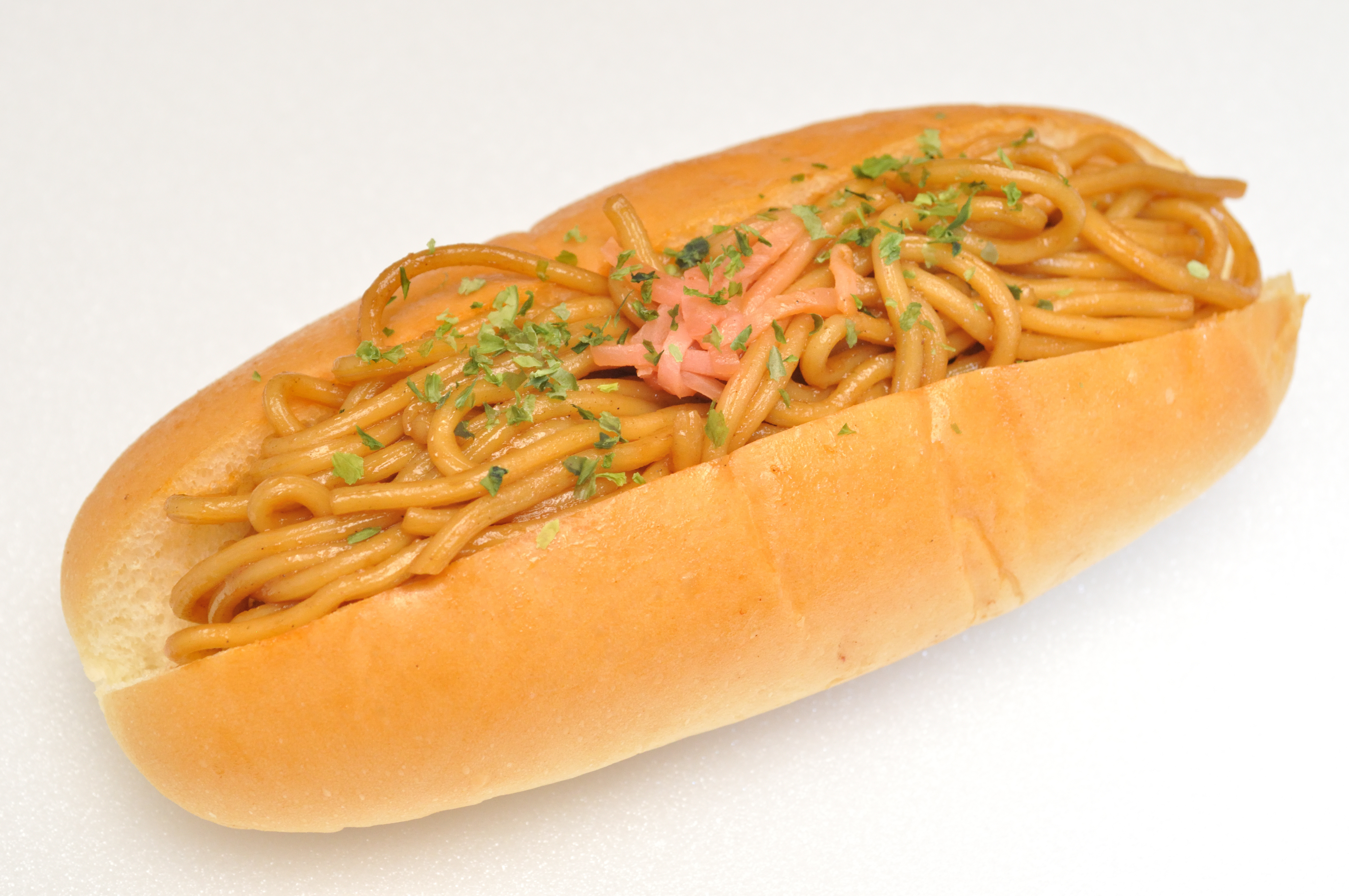 Yakisobapan is a bun with noodle filling.